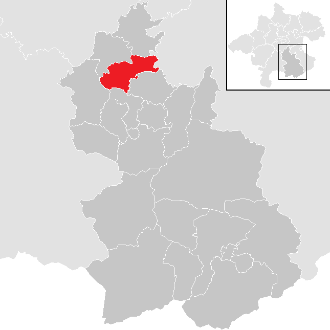 district Kirchdorf an der Krems